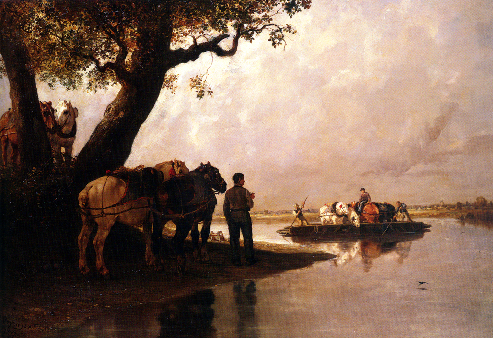 oil on canvas - Le passeur de chevaux, école de Barbizon